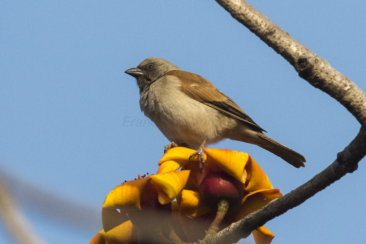 Northern Grey-headed Sparrow - Gambia 17_CD5A1959